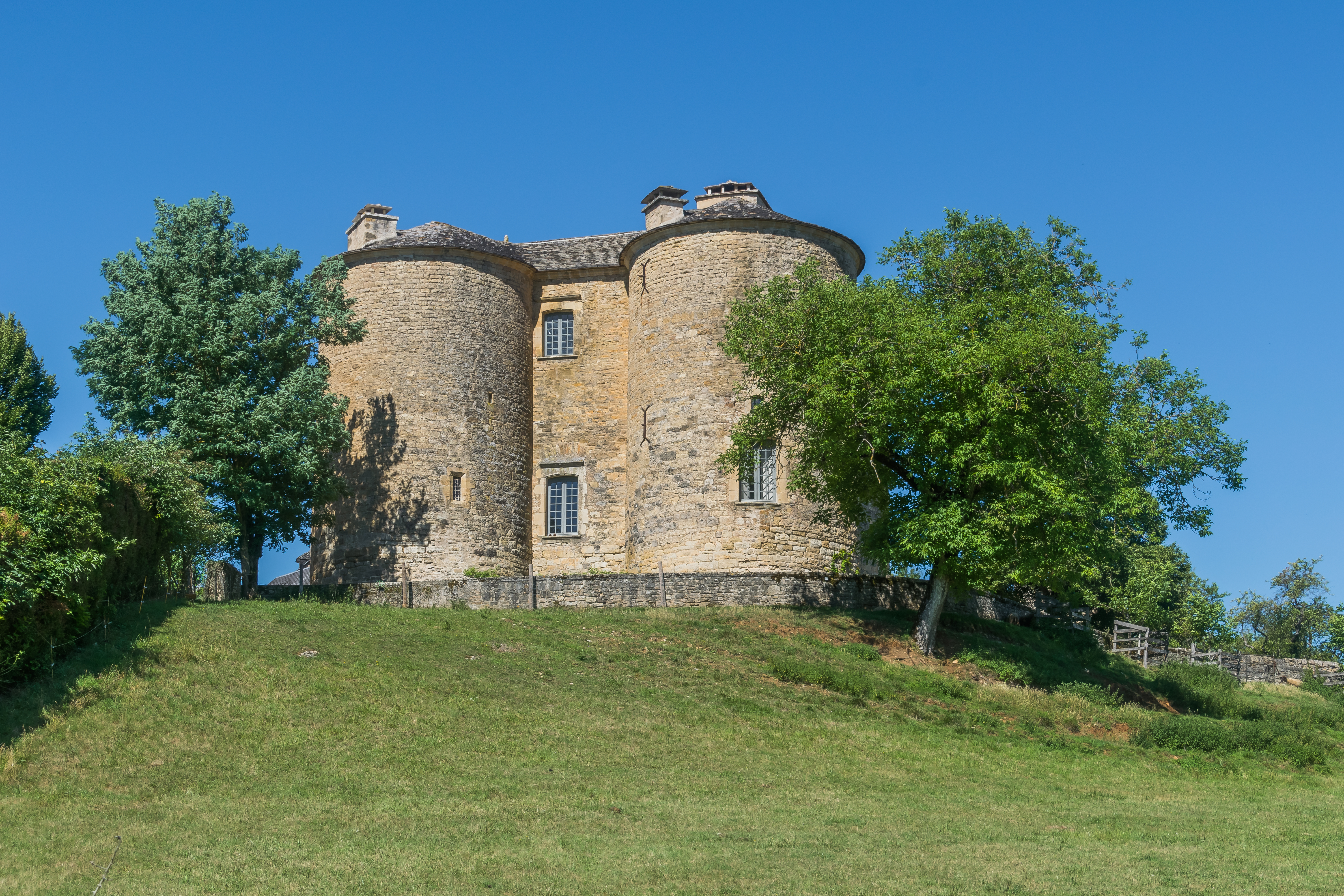 Castle Caylaret in Cruéjouls, Aveyron, France